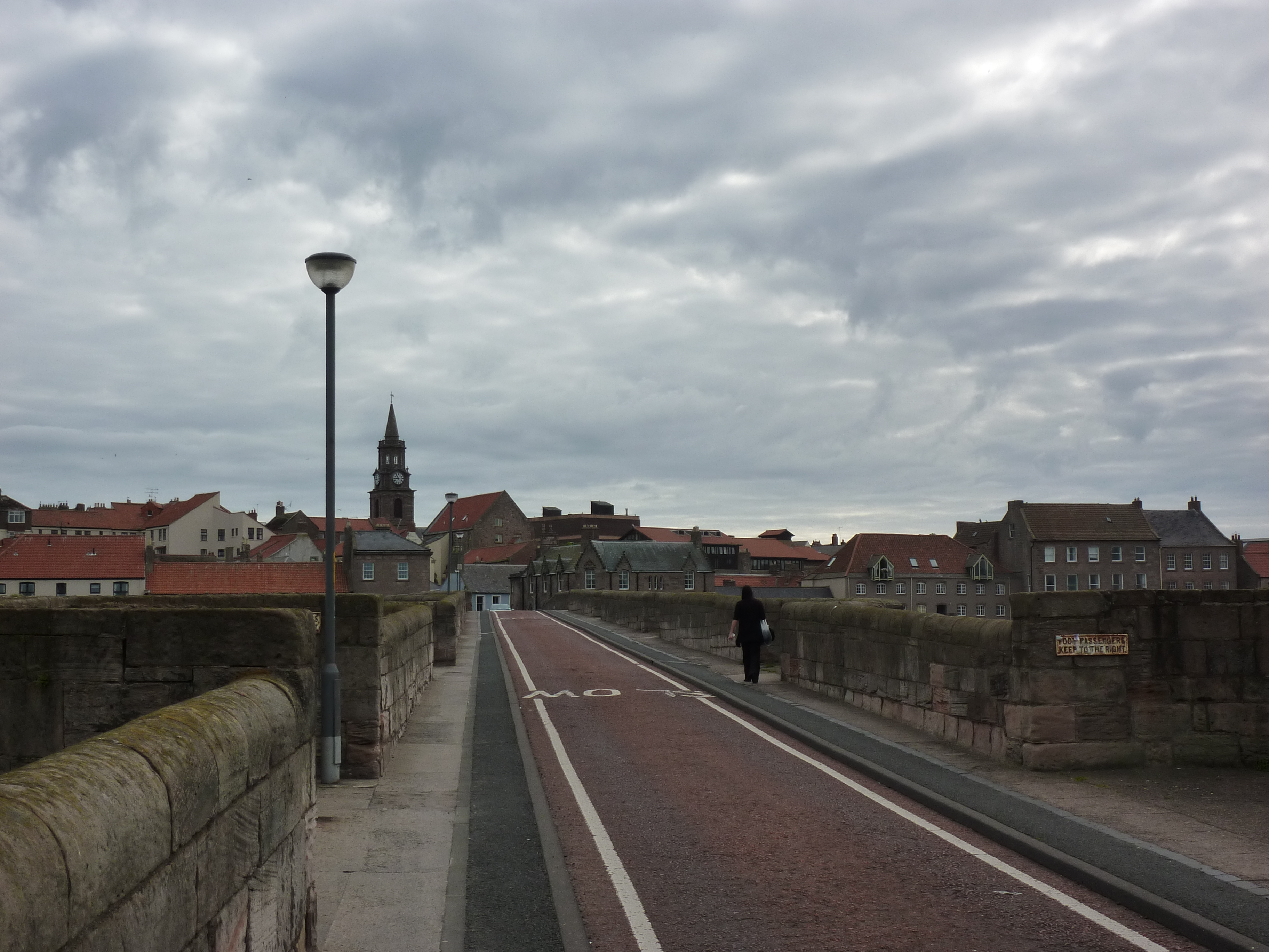 Southern Upland Way blogged about at .uk/southernuplandway/